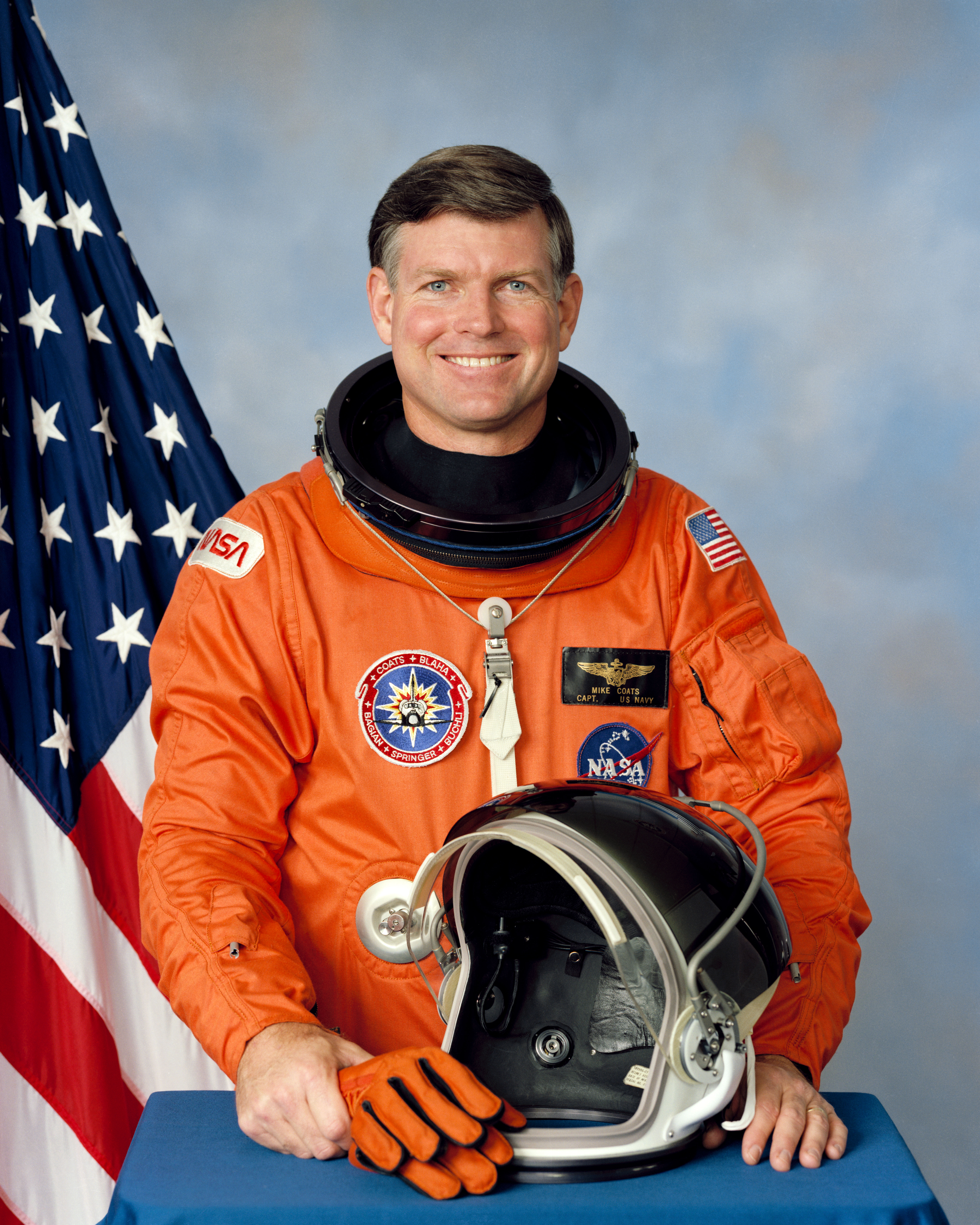 NASA Astronaut and LBJSC director Michael Coats